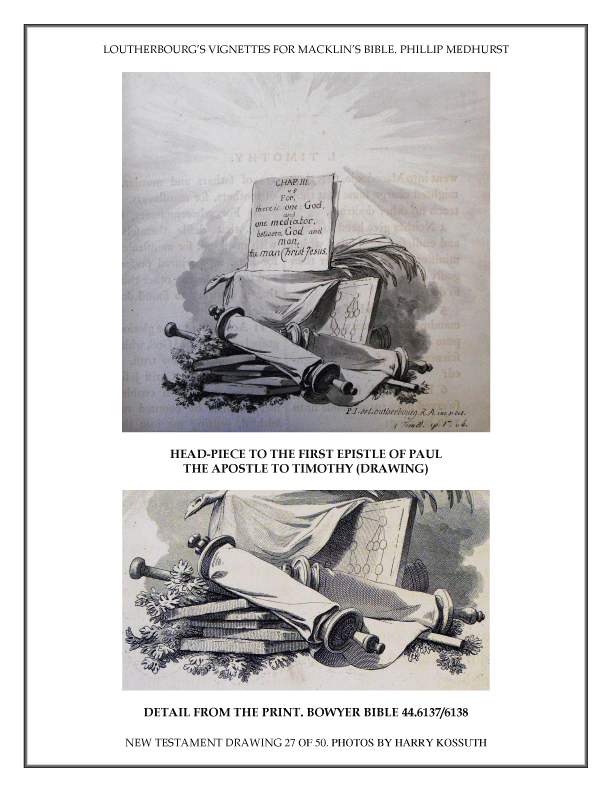 Head-piece to the first epistle of Paul the apostle to Timothy, vignette with sheet inscribed '. . . For there is one God and one mediator . . .' (1 Timothy 2:5) standing upon a pile of tablets, scrolls and a palm branch; letterpress in two columns below and on verso. 1800. Inscriptions: Lettered below image with production detail: "Loutherbourg ... delt", "W. S . . . Sculpsit" and publication line: "Published. by T Macklin, Fleet Street London". Print made by William Skelton. Dimensions: height: 490 millimetres; width: 395 millimetres.